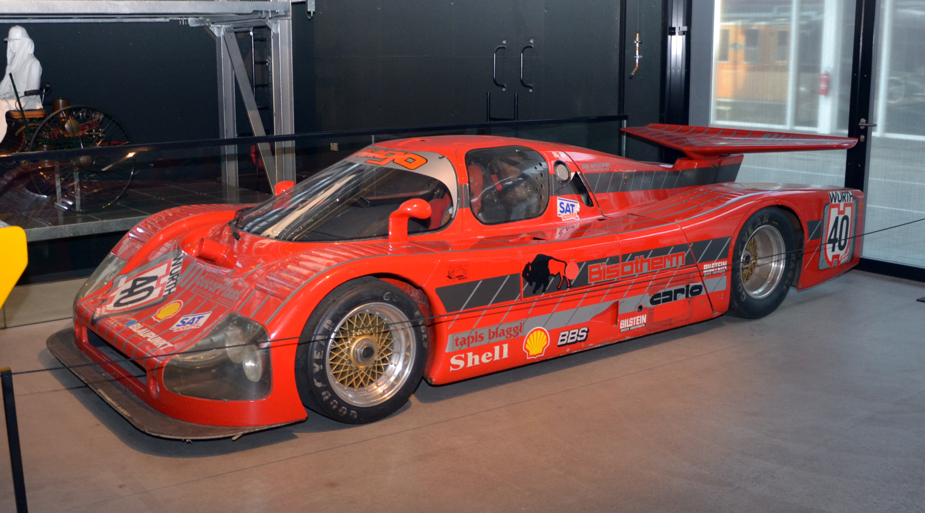 Sauber C6 in the Swiss Museum of Transport of Lucerne